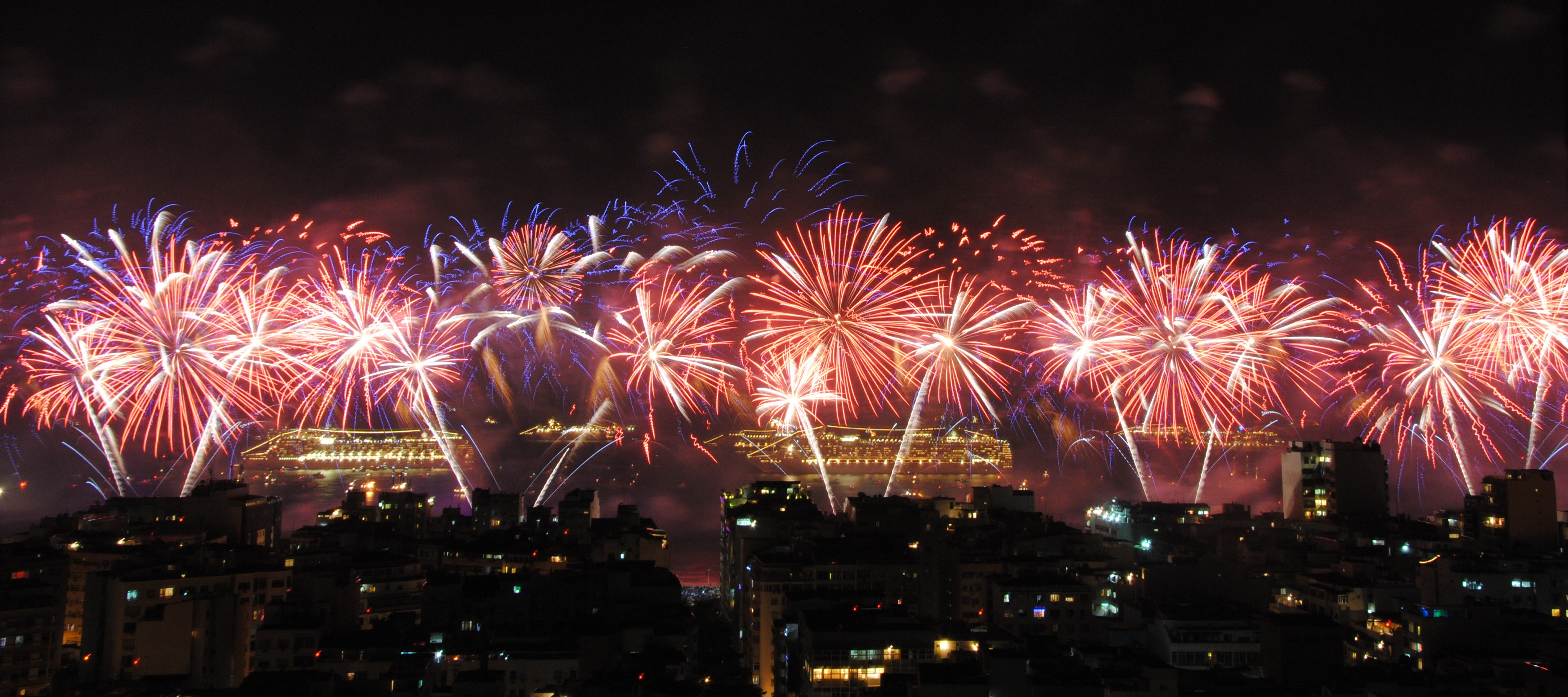 Happy new year from Copacabana - Rio de Janeiro.